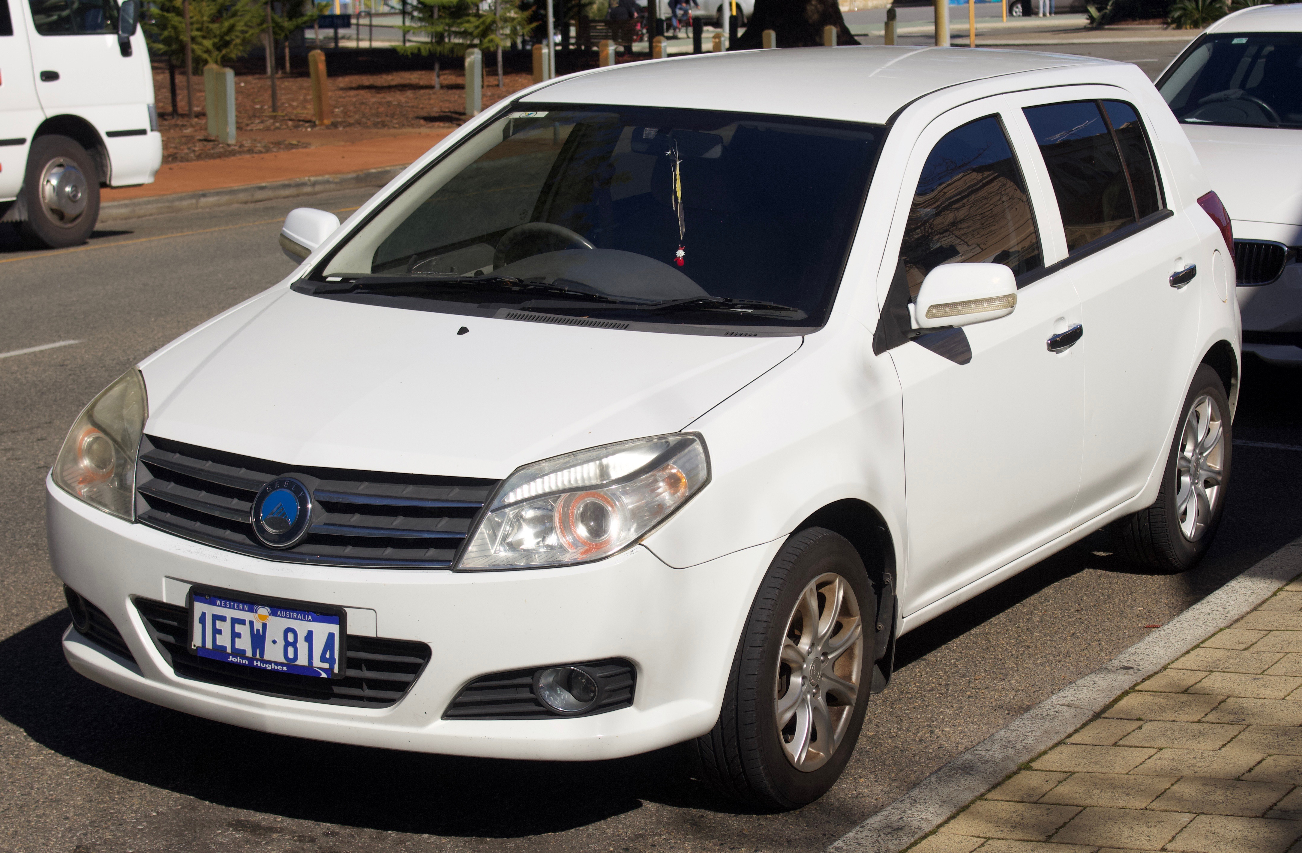 2009-2013 Geely MK GL hatchback. Photographed in Fremantle, Western Australia, Australia.